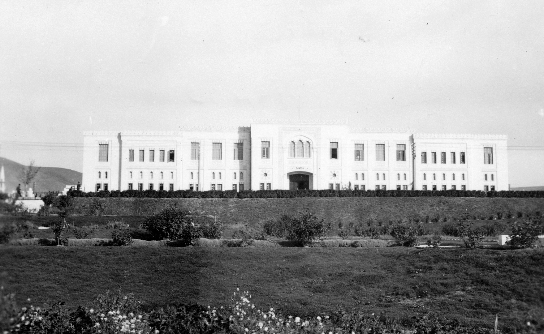 091 1942 - College in Damascus, Syria